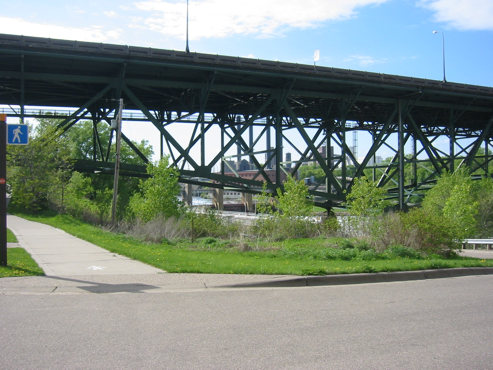 The south end of the I-35W Mississippi River Bridge, taken from the east side of the bridge, looking toward downtown Minneapolis, Minnesota. This photo was taken on 2006-05-06, well before its collapse on 2007-08-01.